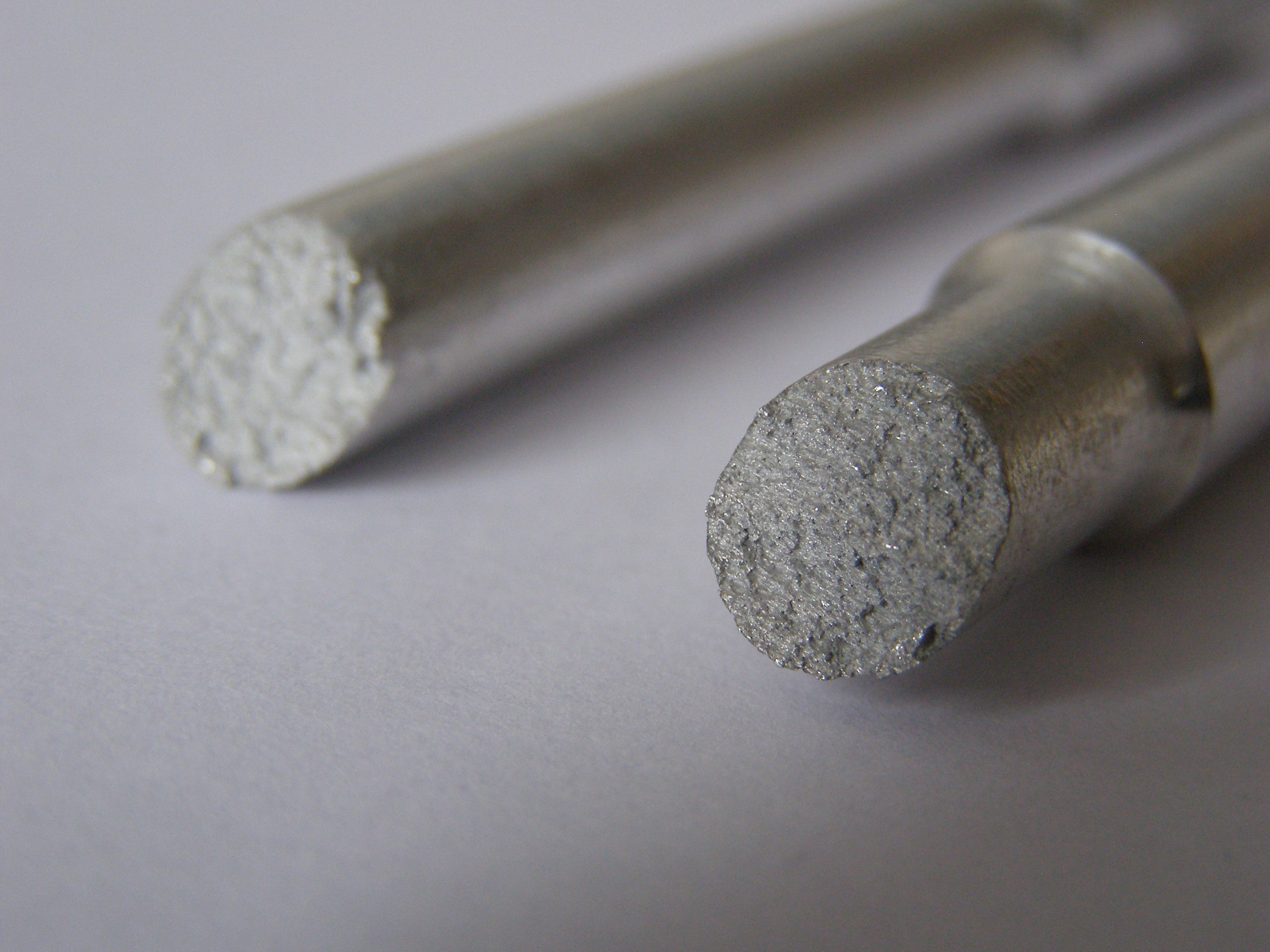 Aluminium alloy round specimen after tensile test